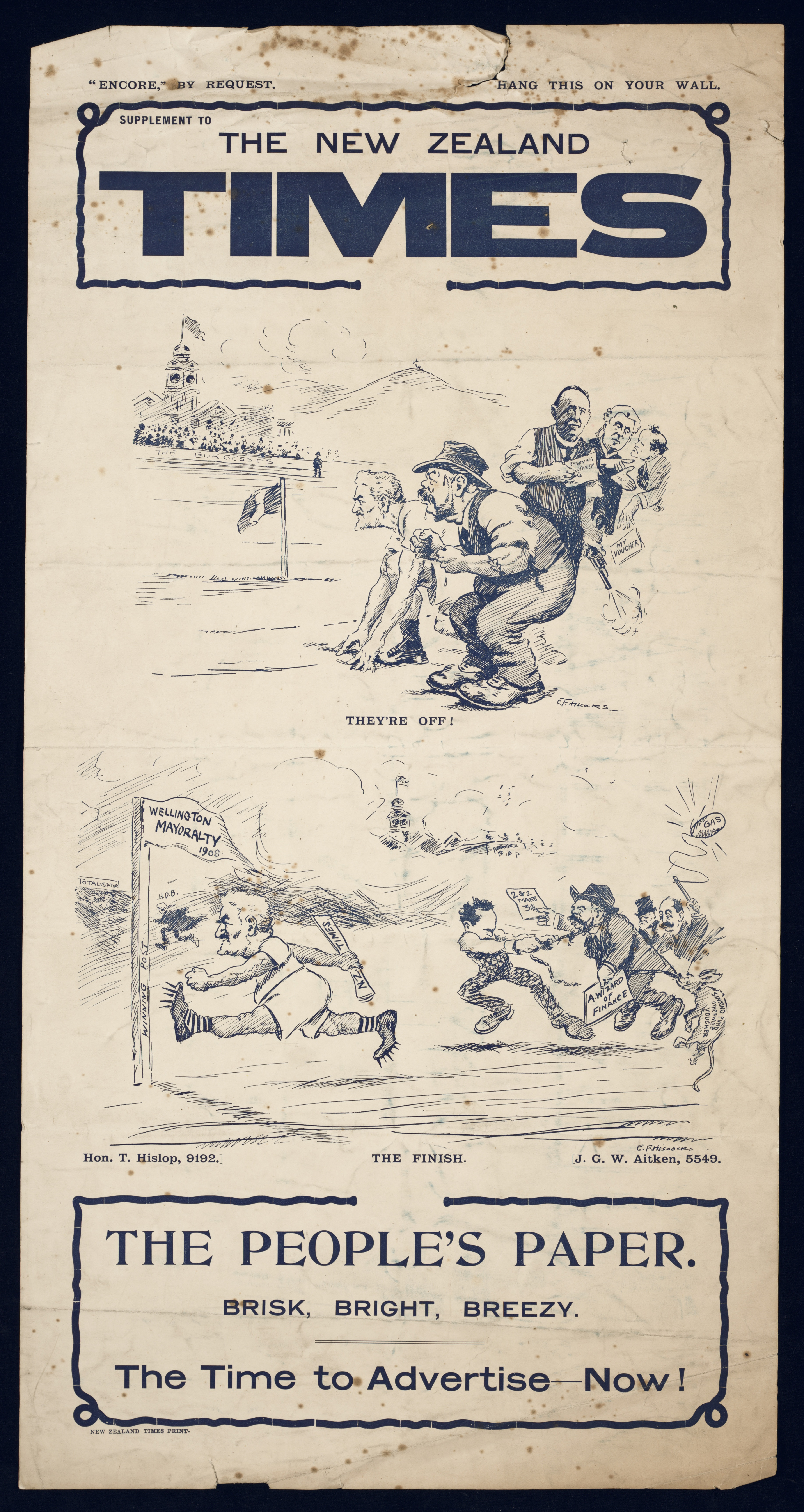 New Zealand Times :Wellington mayoralty 1908. They're off! The finish. Hon T Hislop, and J G W Aitken. Shows two scenes from the Wellington Mayoralty elections, treated as a running race. Issued as a supplement to the newspaper.